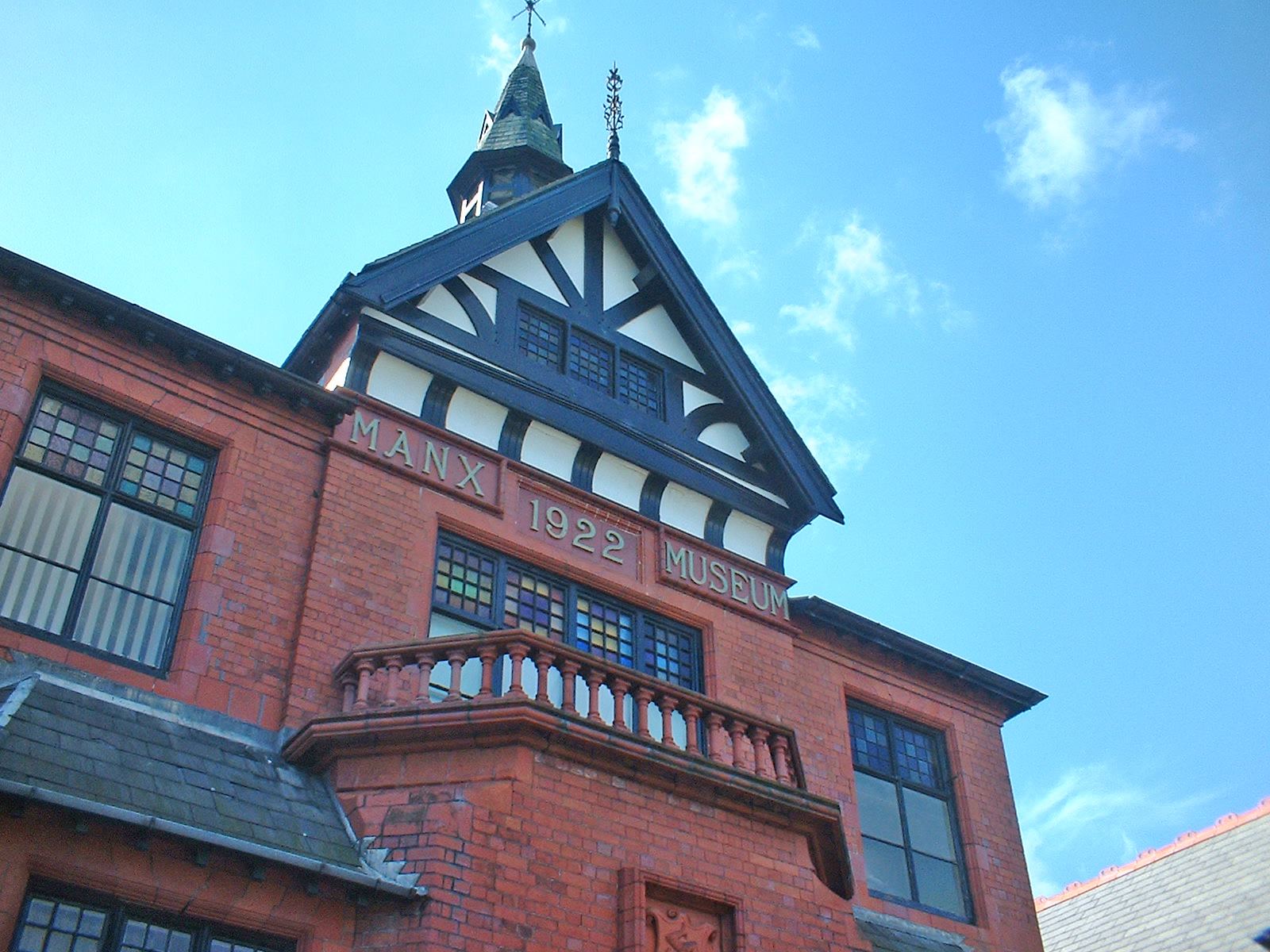 Øya Man, hovedstaden Douglas, Nasjonalmuseumet Isle of Man, main city Douglas, The National Museum